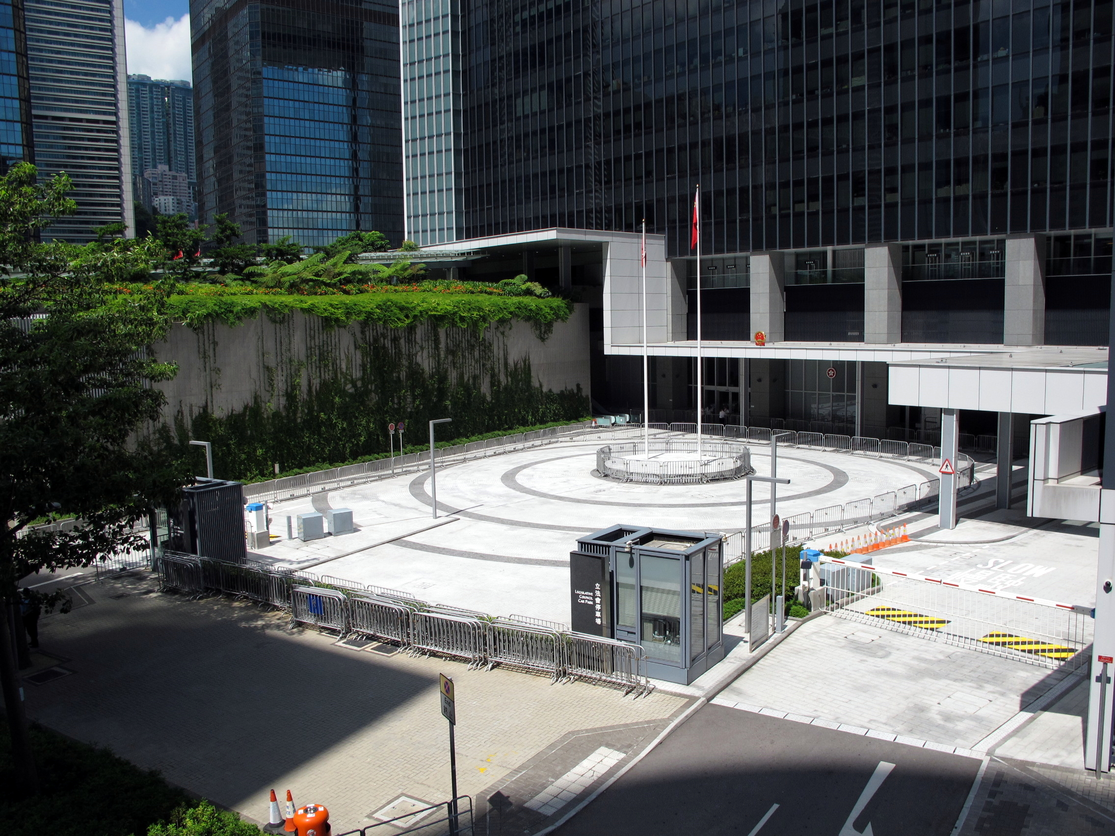 CGO East Wing Civil Plaza